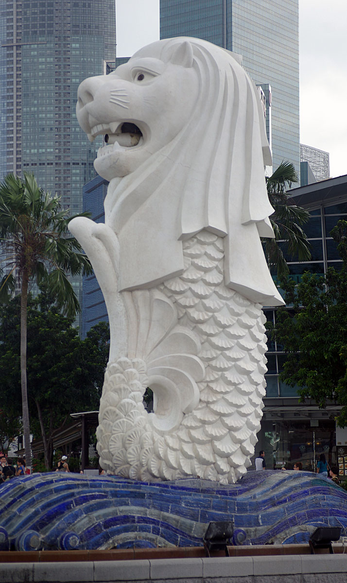 The Merlion of Singapore at the Marina Bay